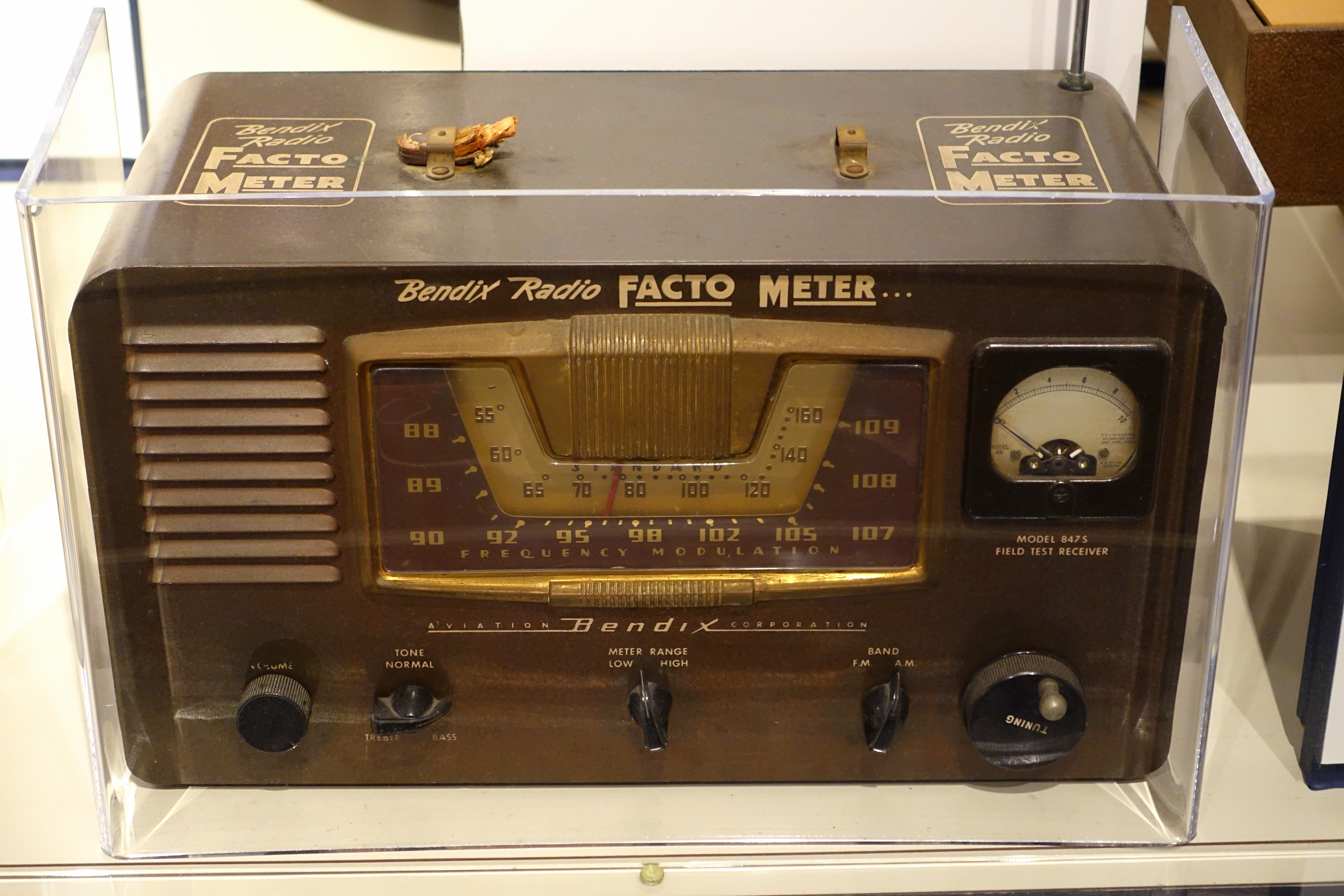 Exhibit in the National Electronics Museum, 1745 West Nursery Road, Linthicum, Maryland, USA. All items in this museum are unclassified. The museum permitted photography without restriction.